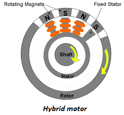 three-phase hybrid motor